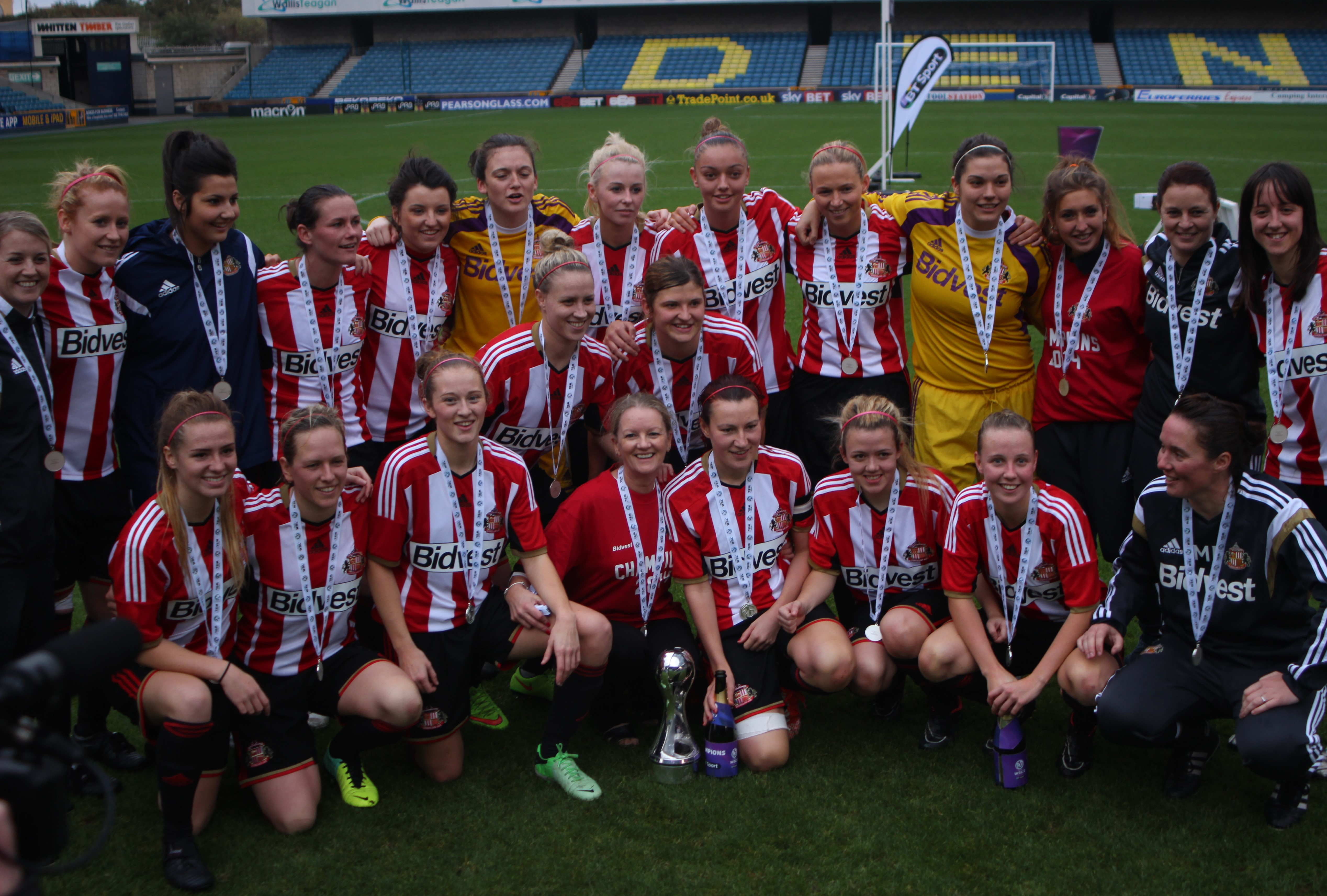 Sunderland Ladies celebrate promotion the WSL1.